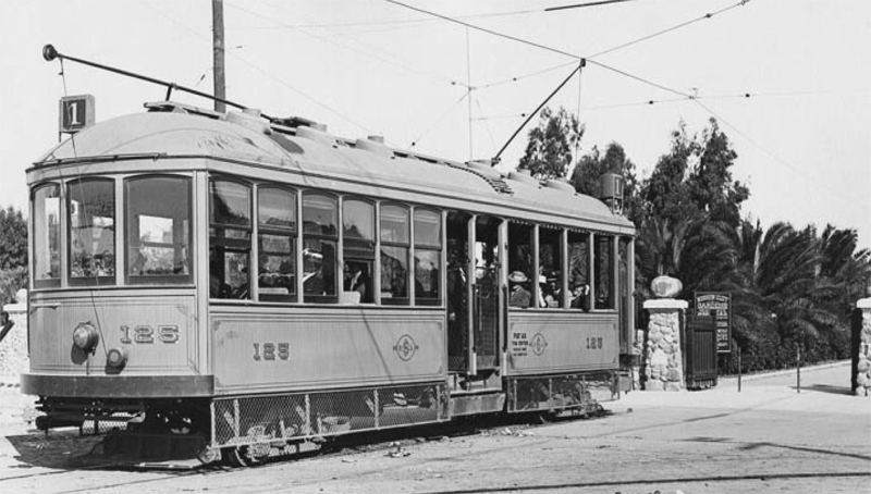 Archival photo of Class 1 Streetcar #125 at Trolley Barn Park in the University Heights nieghborhood of San Diego, CA.